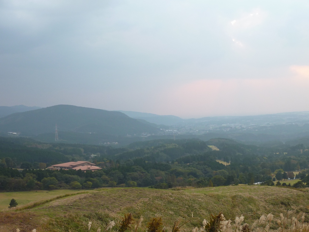 Omine Volcano and Takayubaru Plateau (Nishihara Village, Kumamoto, Japan)